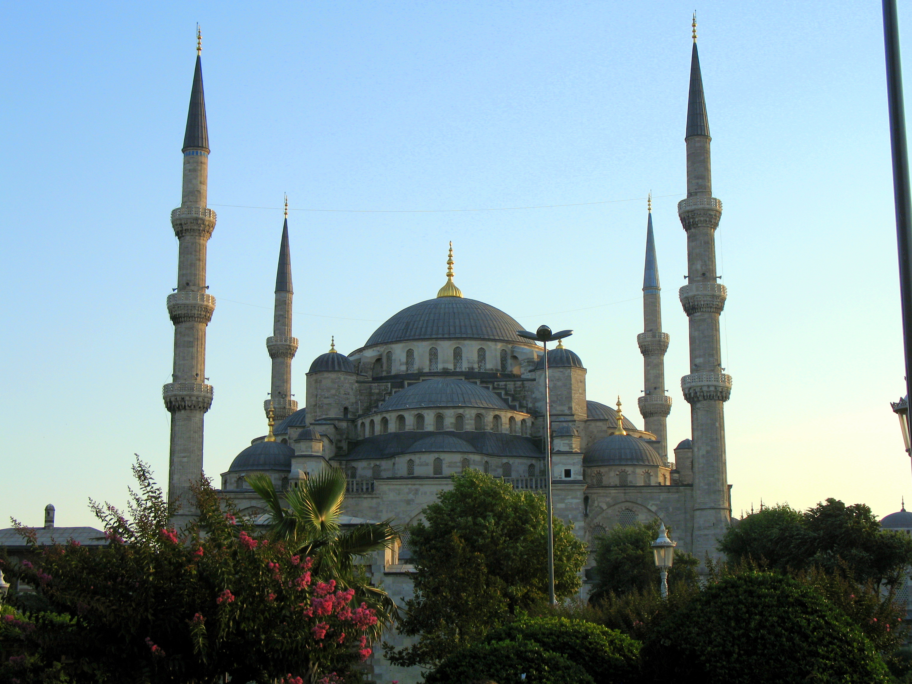 The Sultan Ahmed Mosque (Sultanahmet Camii), or Blue Mosque (Mavi Cami), in Istanbul (İstanbul), Turkey (Türkiye).